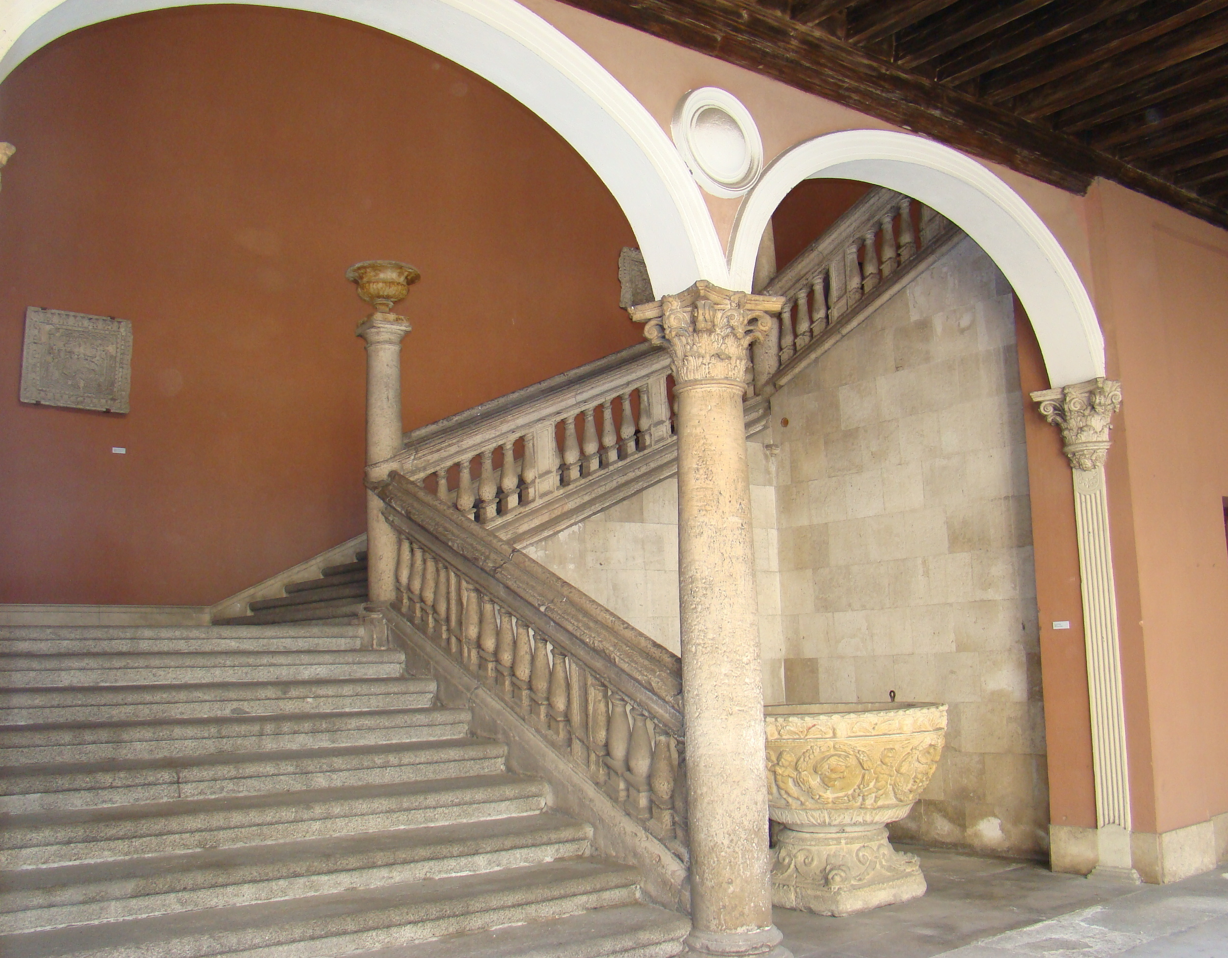 Classicist palace named Fabio Nelli in Valladolid, Spain. Palatial stairway built from the design of Pedro de Mazuecos el Mozo.